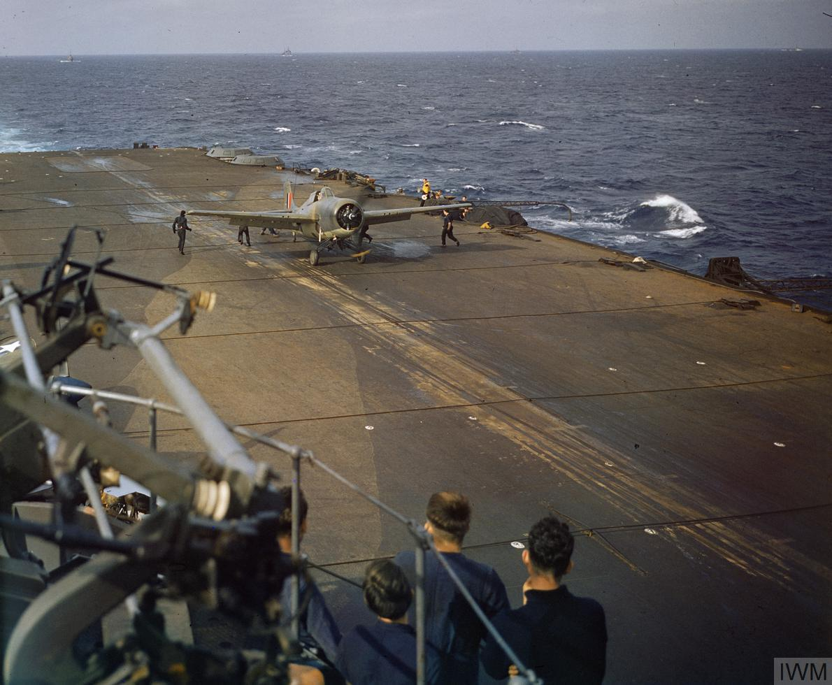 A Royal Navy Grumman Martlet fighter on the flight deck of the aircraft carrier HMS Formidable (R67) in North African waters during "Operation Torch".